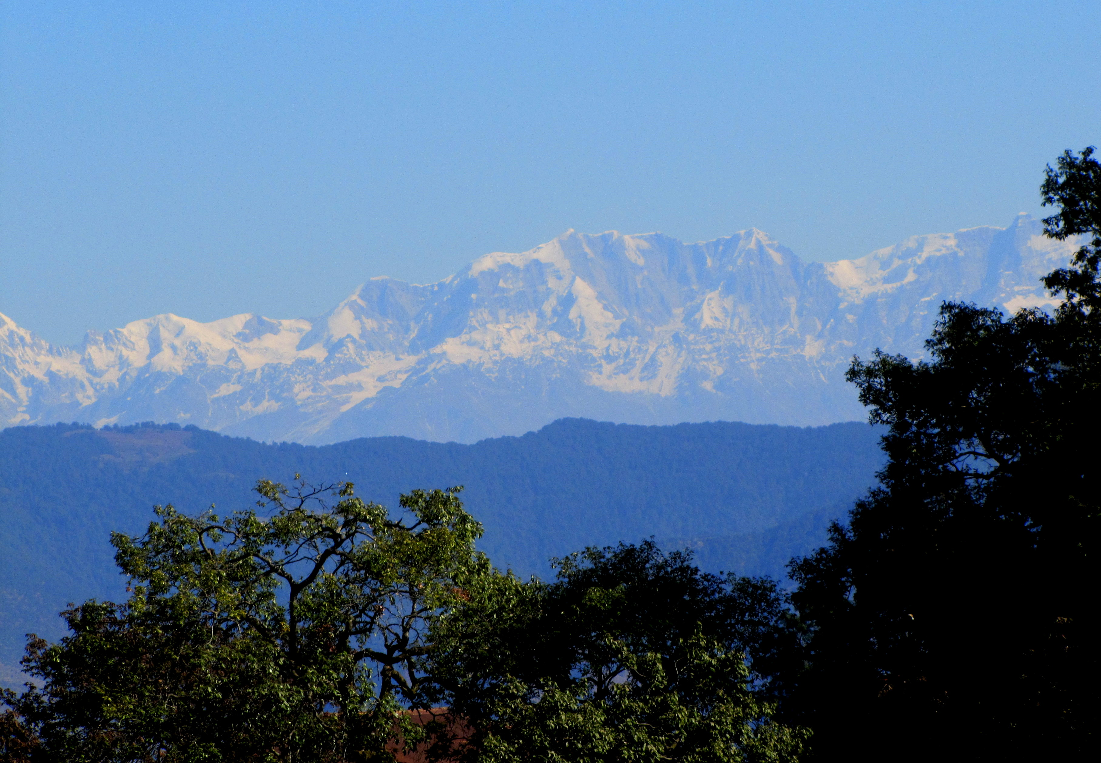 Himalayan range Nature, scenery, mountains, forests of north Uttarakhand